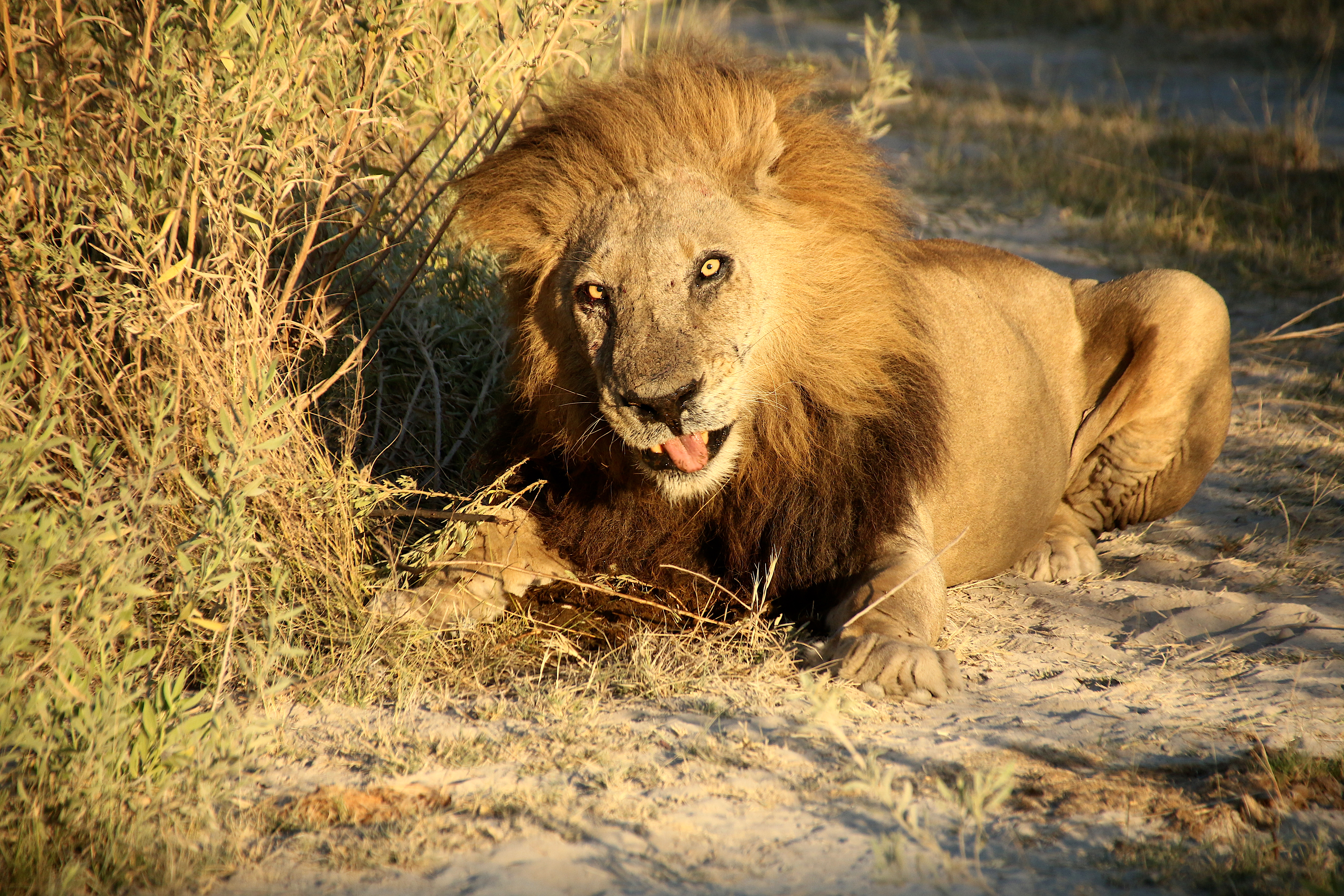 Lion in Botswana (2019)